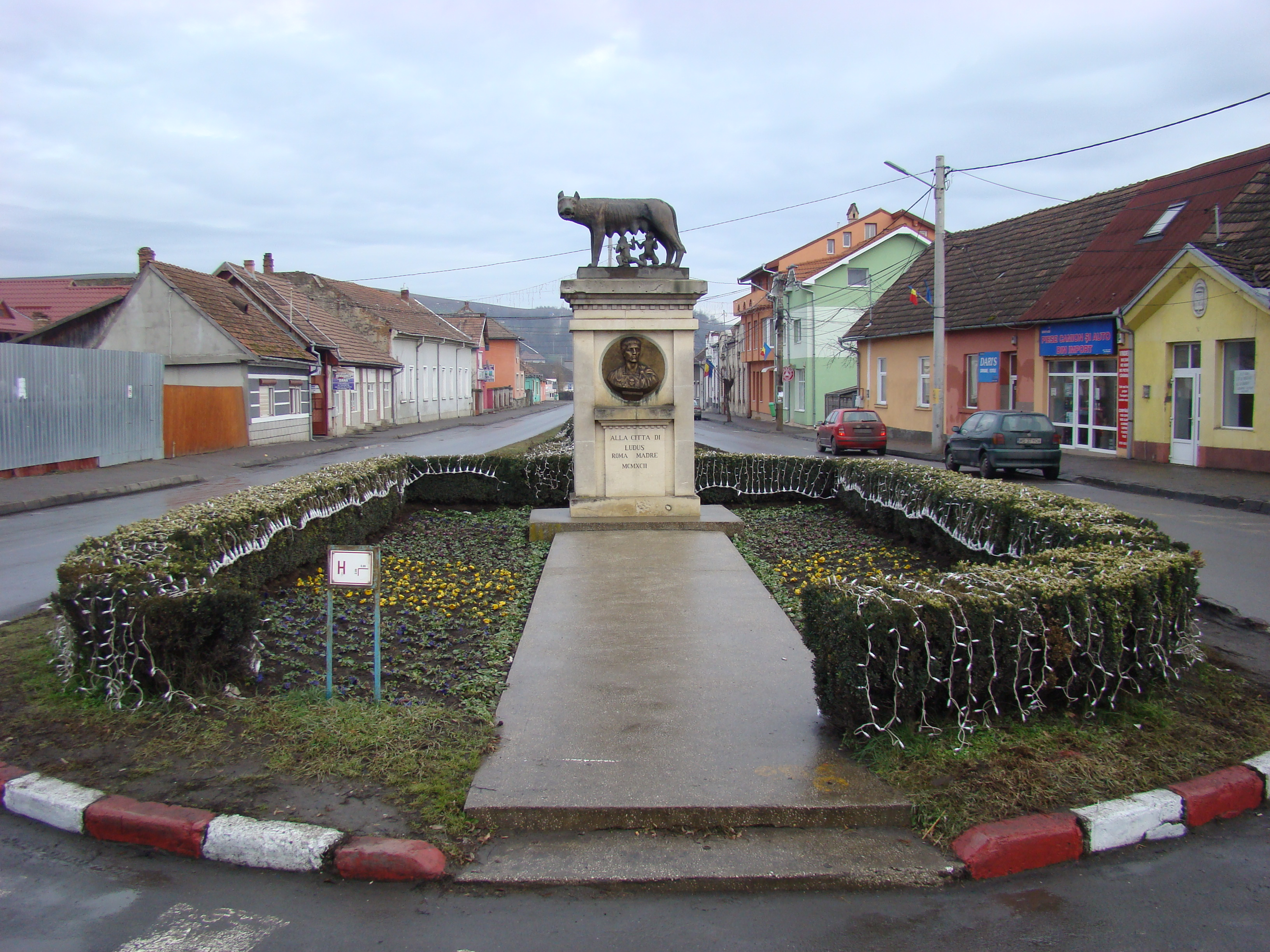 Statue, replica of Lupa Capitolina, located in Luduș